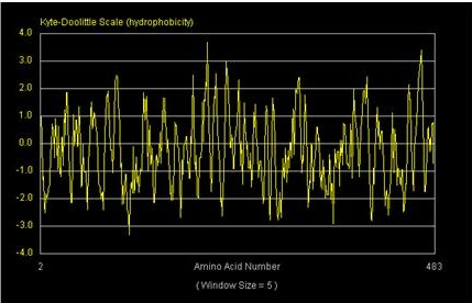 Hydropathy plot of hexokinase.